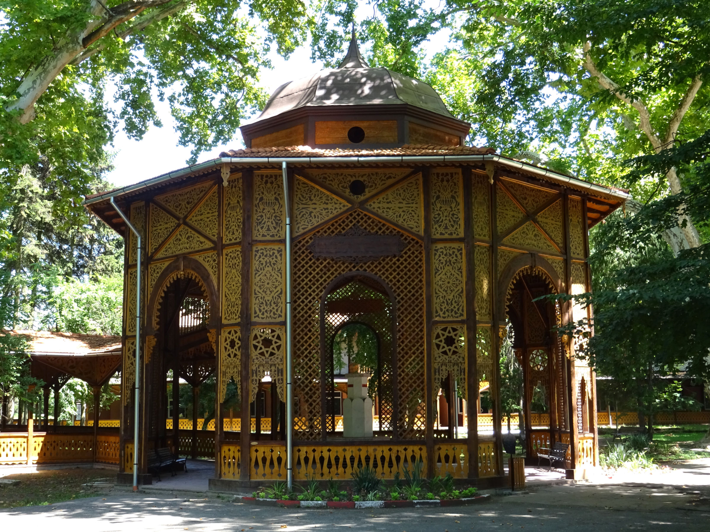 Byzantine style wooden colonnade in Buzias park, fountain, plane trees